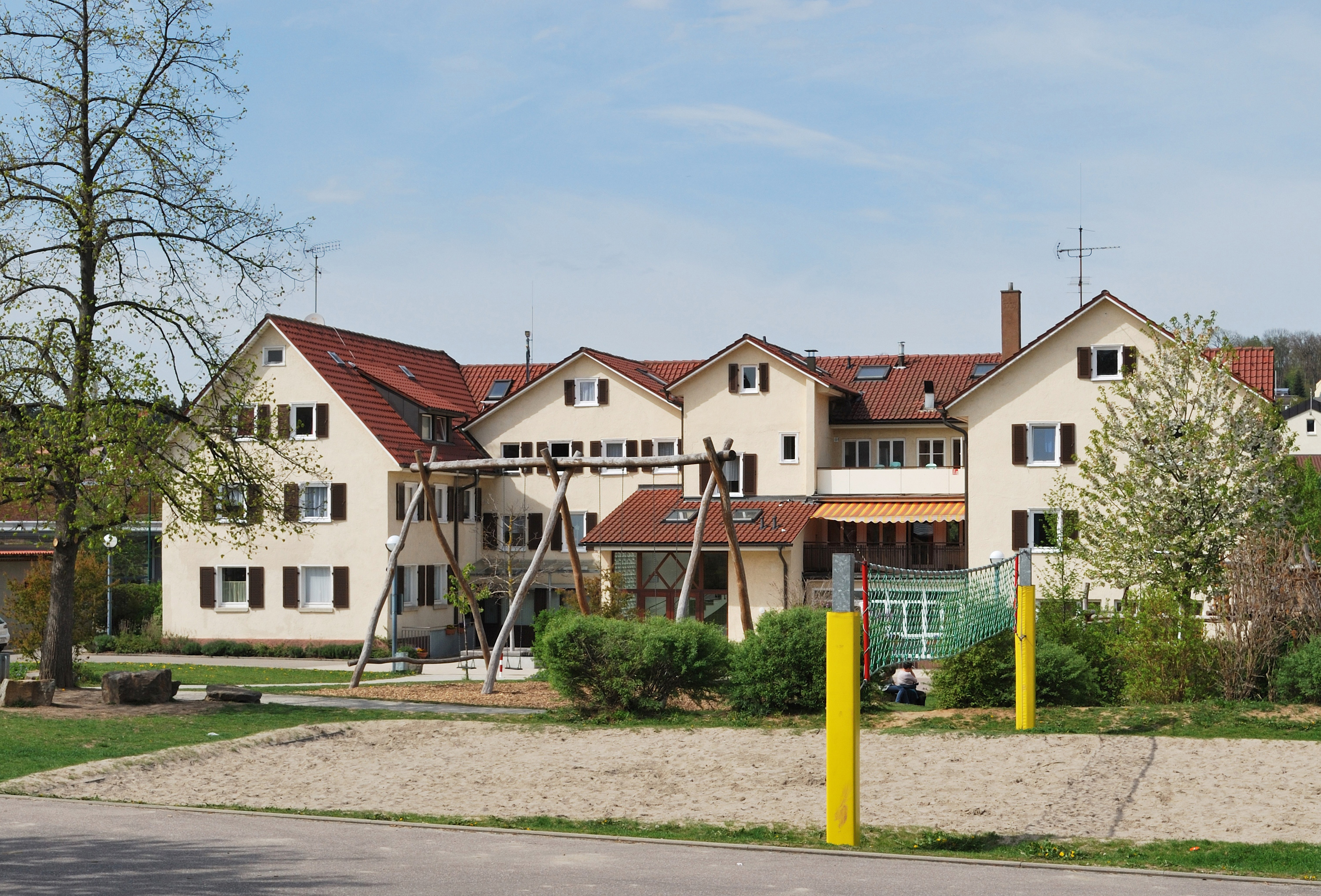 The Hoffmannhaus, a youth welfare institution in Korntal in the German Federal State Baden-Württemberg.